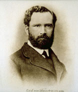 Portrait of Carl von Effner (1831-1884), a german landscape gardening engineer who designed amongst others the parks of Linderhof castle and Herrenchiemsee castle.